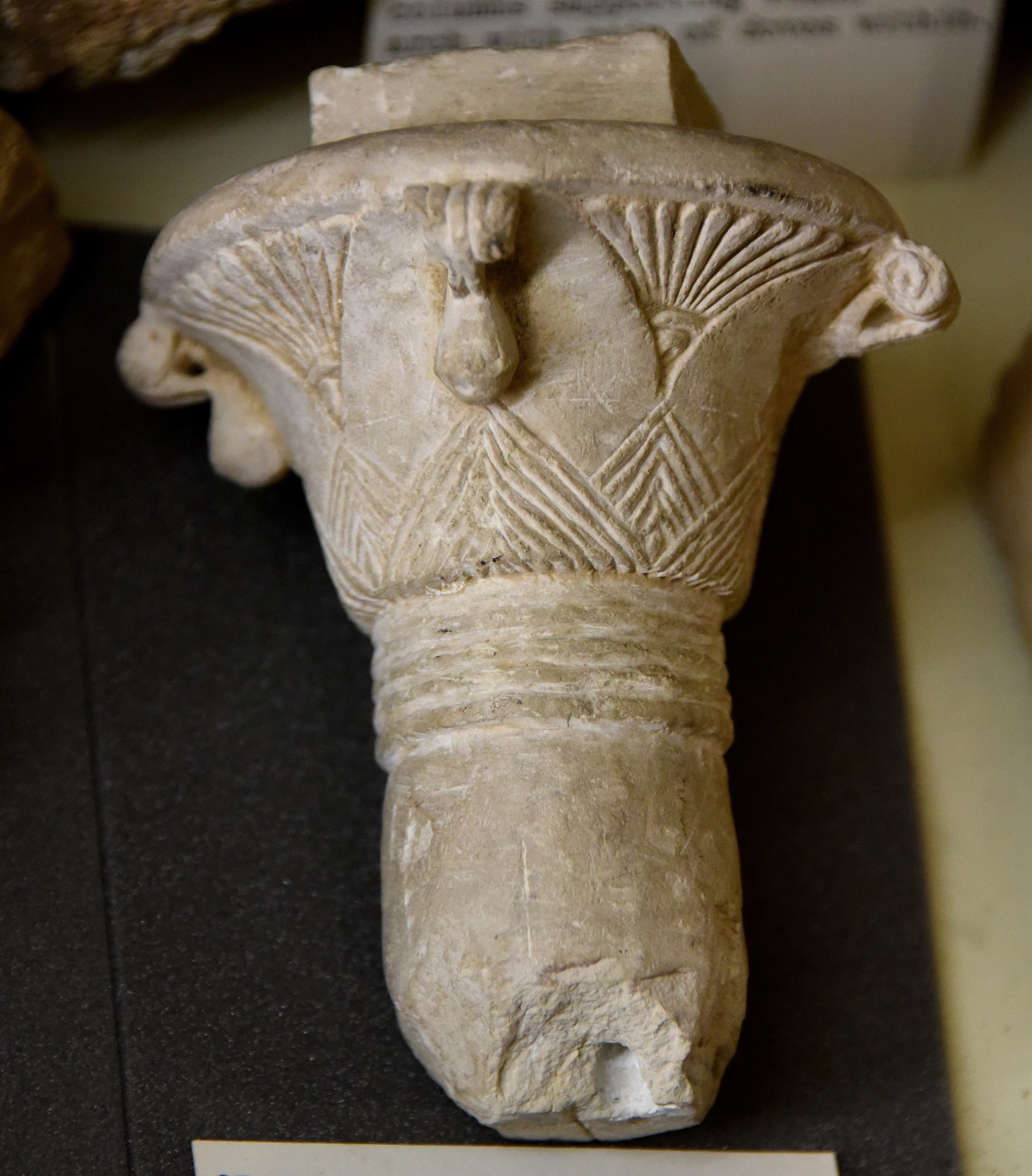 Capital, limestone model. Roman period. From Egypt. The Petrie Museum of Egyptian Archaeology, London. With thanks to the Petrie Museum of Egyptian Archaeology, UCL.